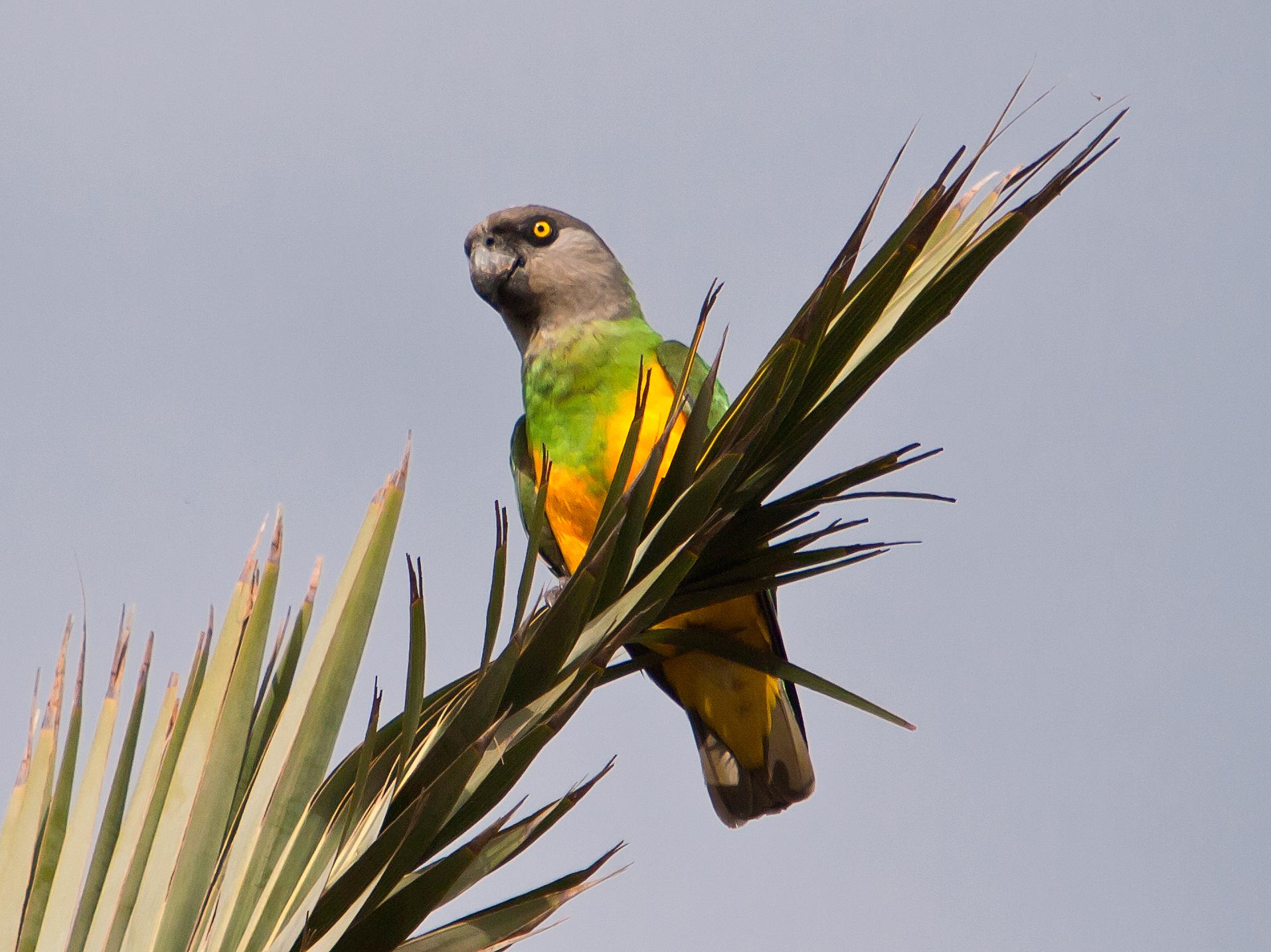 An adult Senegal Parrot in Maspalomas, Gran Canaria, Canary Islands, Spain.